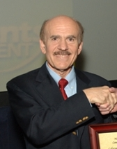 CRBWG workshop. Louis J. Ignarro receives award from D. Wink at National Cancer Institute - NIH